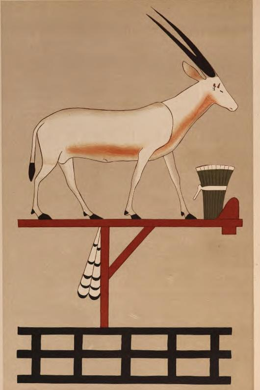 Drawing of the symbol of the Oryx Nome (the 16th of Upper Egypt) from the tomb of the nomarch Khnumhotep II (BH3) at Beni Hasan.